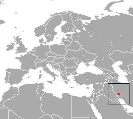 Iranian Shrew (Crocidura susiana) range